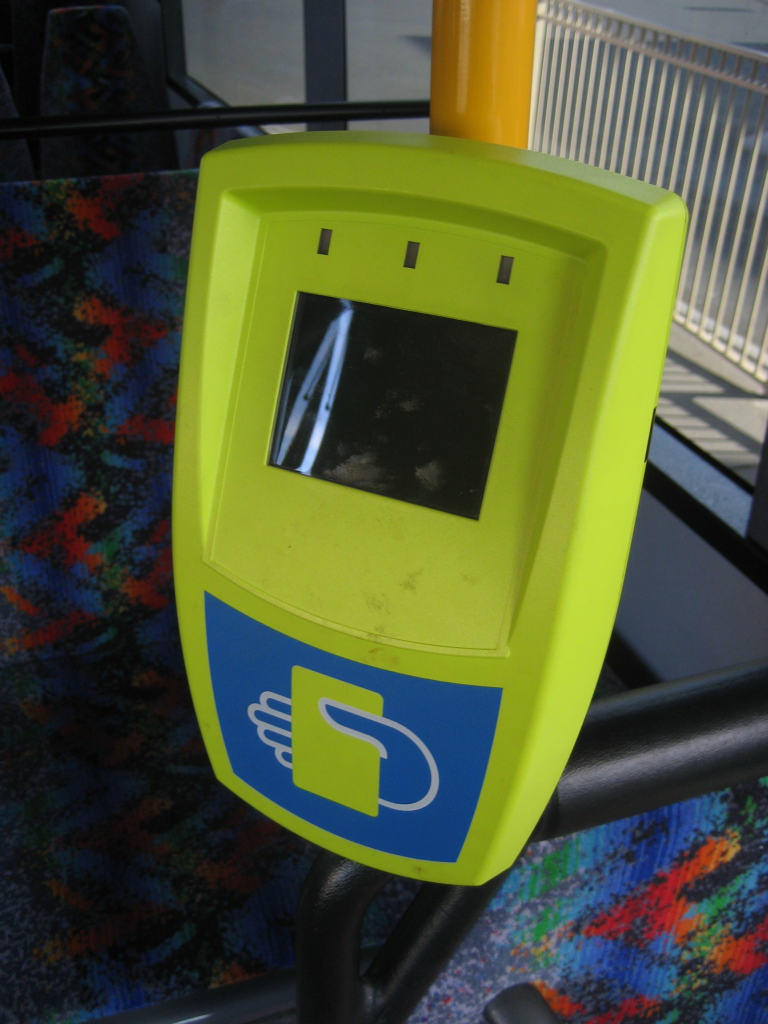 Fare payment device for the Myki system in Victoria, Australia. In bus in Geelong.